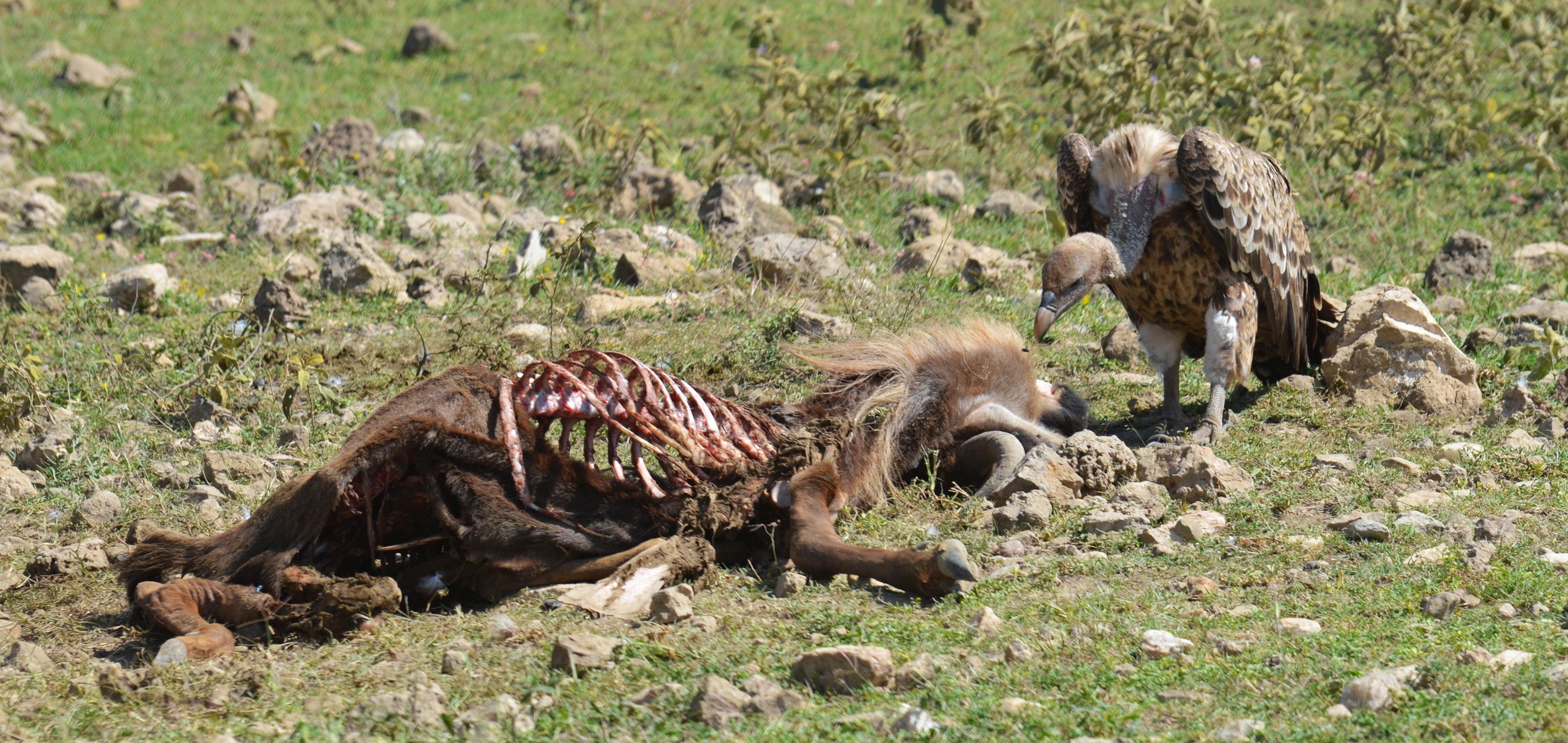 This is an image of the Biosphere Reserve: Serengeti-Ngorongoro